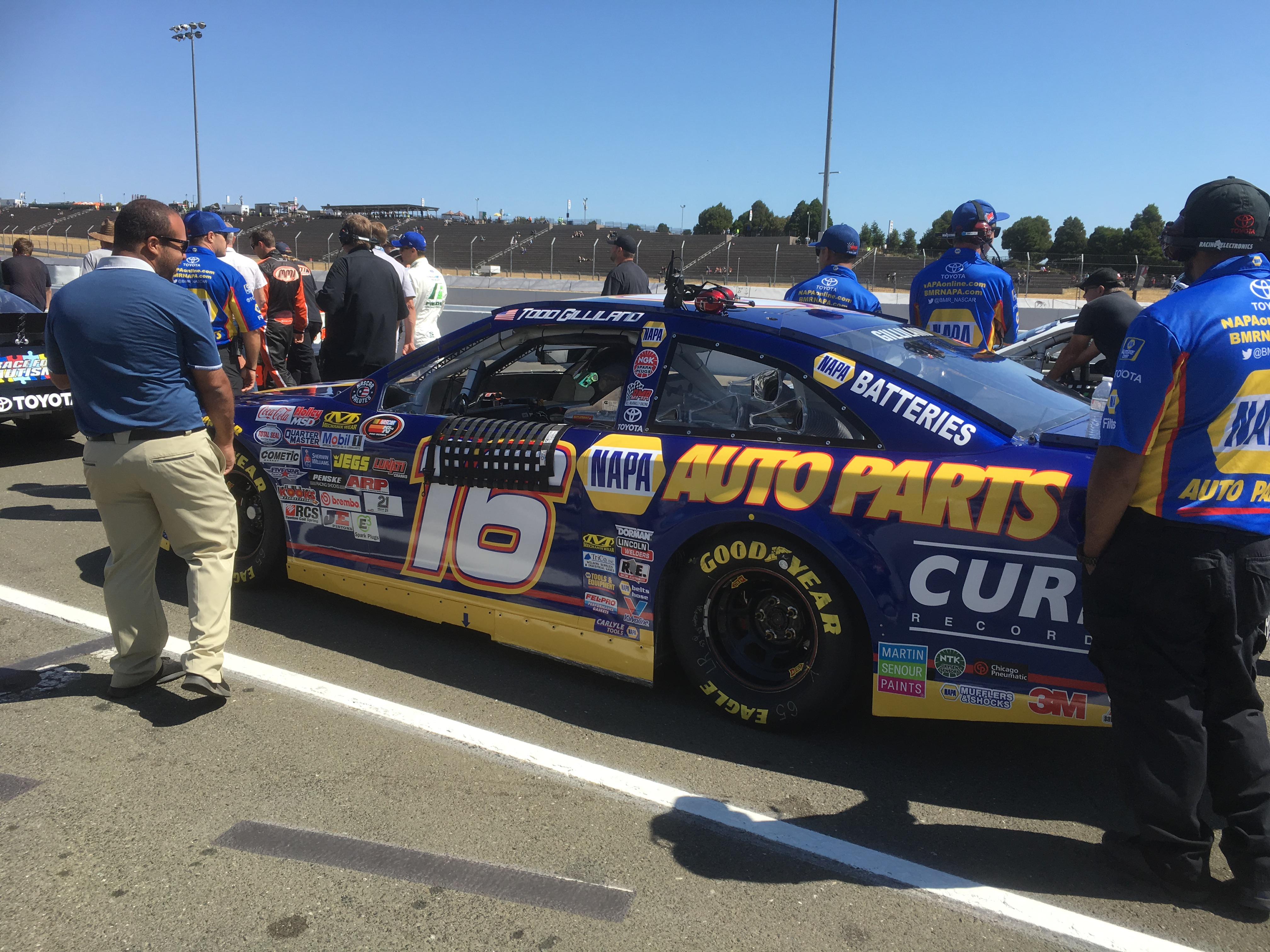 Todd Gilliland's No. 16 car at the 2017 Carneros 200.